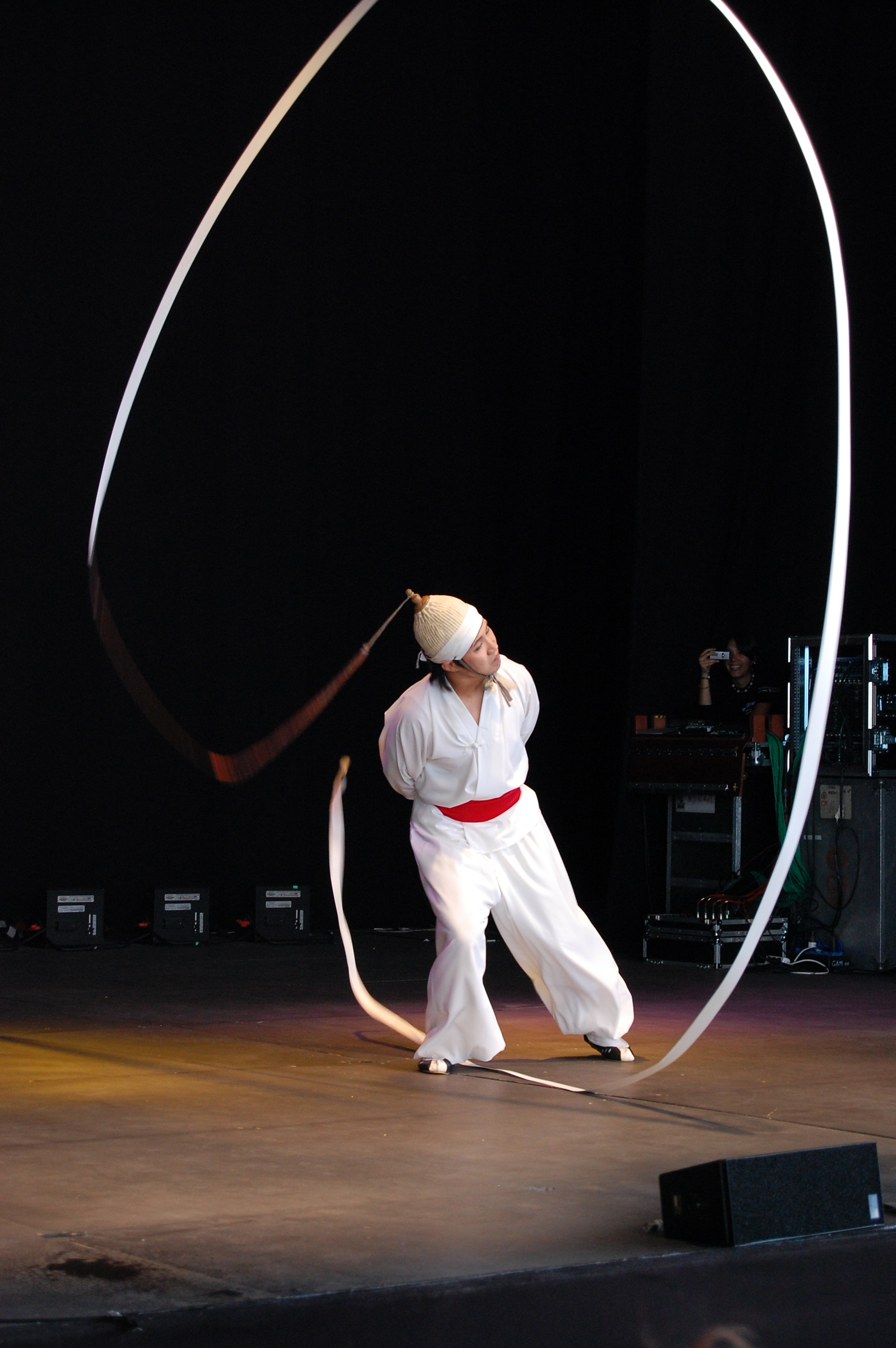 Sangmo noro (상모놀이), spinning streamer hat performance by namsadang (Korean itinerant troupe).